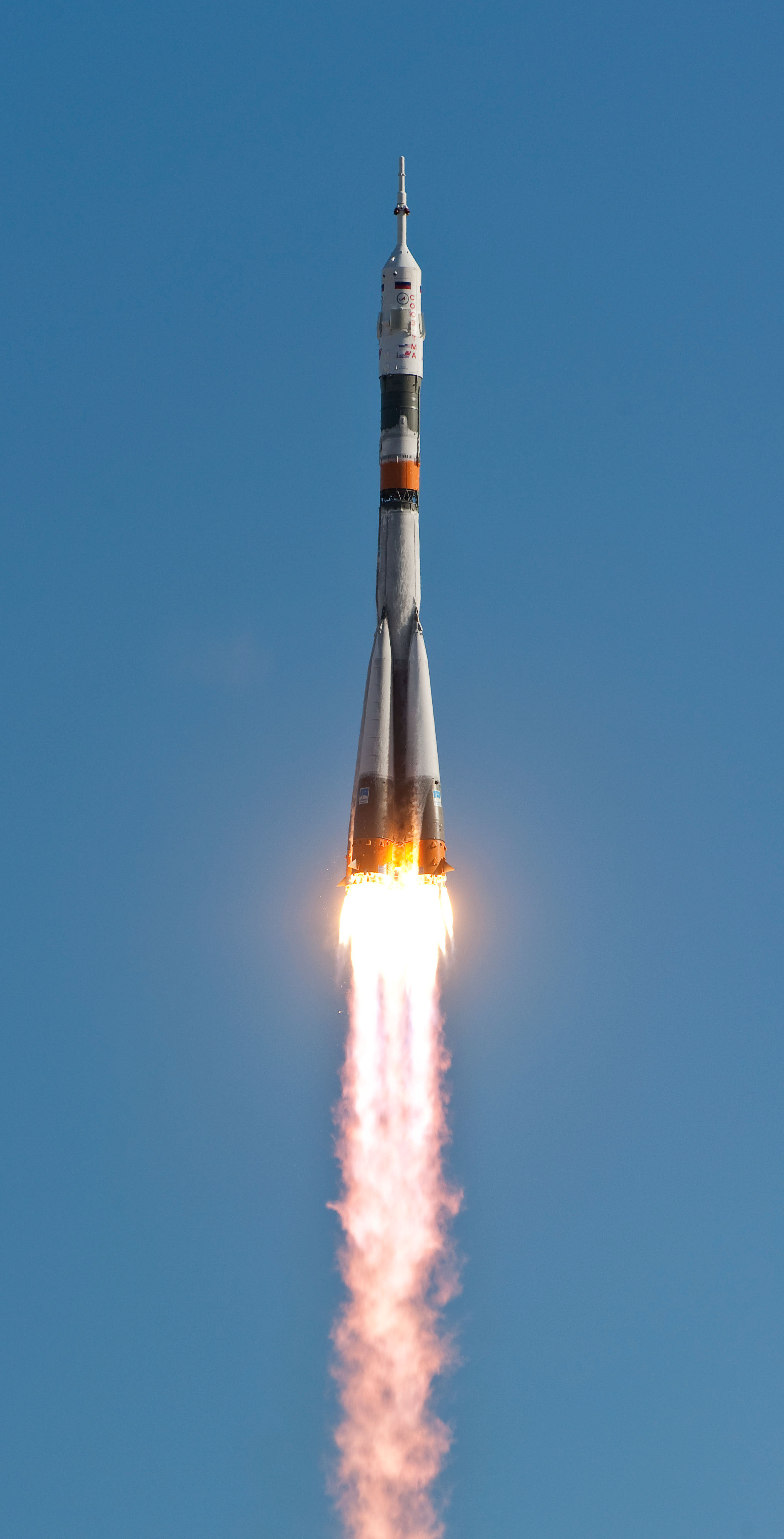 The Soyuz TMA-18 rocket launches from the Baikonur Cosmodrome in Kazakhstan on Friday, April 2, 2010 carrying three Expedition 23 crew members to the International Space Station. Onboard were Russian cosmonauts Alexander Skvortsov, Soyuz commander and Expedition 23 flight engineer; and Mikhail Kornienko, flight engineer, along with NASA astronaut Tracy Caldwell Dyson, flight engineer. Launch occurred at 10:04 a.m., Kazakhstan time.